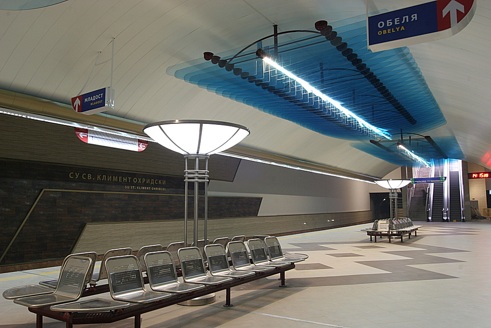 Metrostation SU "Kliment Ohridski"